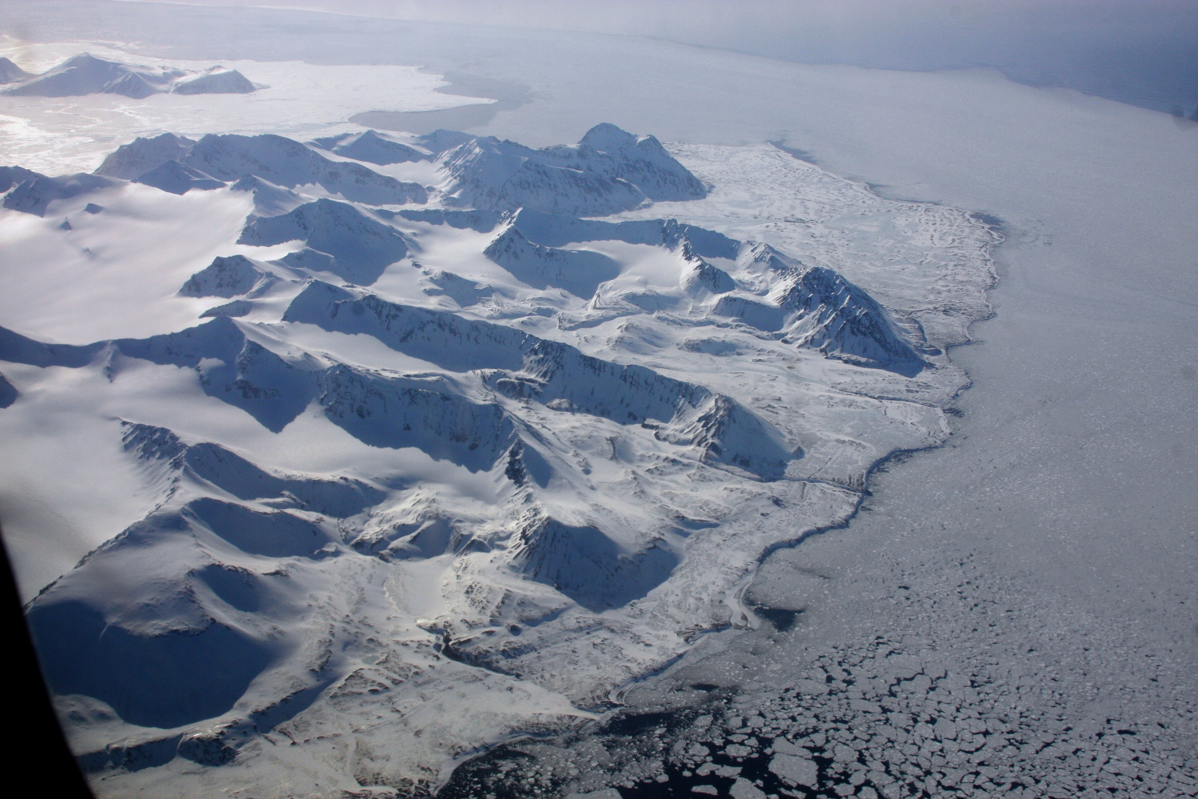 Northwesternmost part of Wedel Jarlsberg Land, with Bellsund